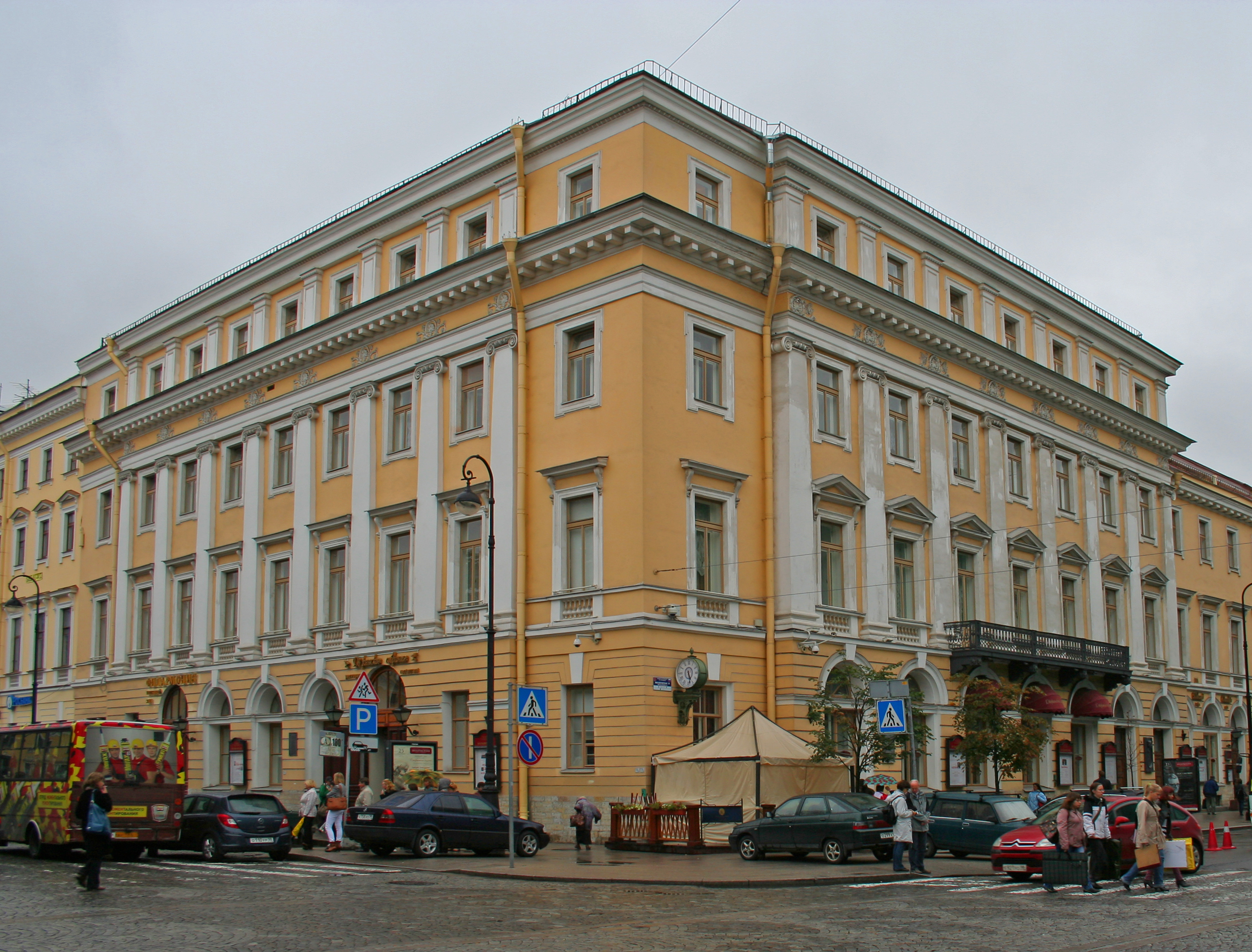 The building of the Concert Hall in Saint Petersburg.